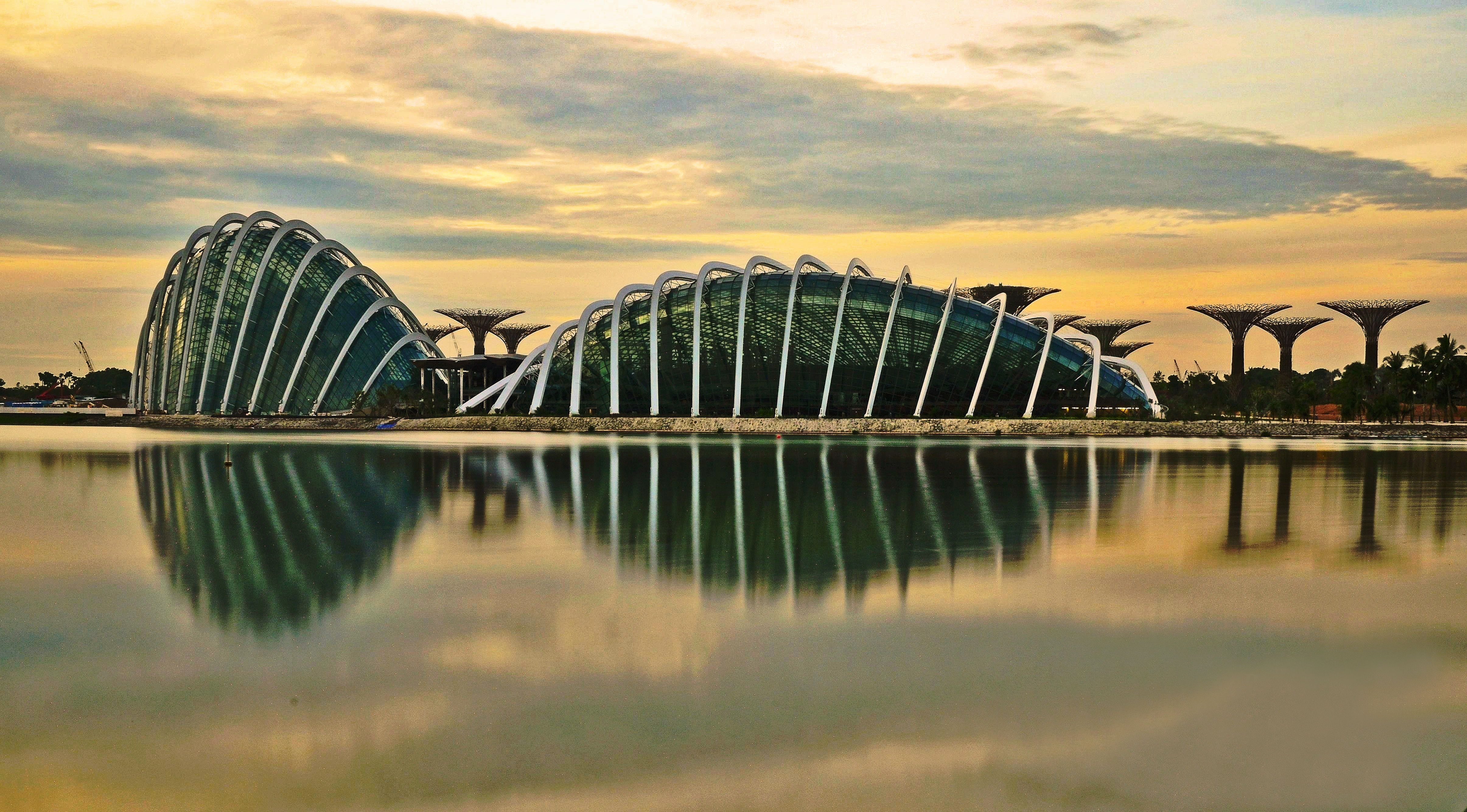 A dawn view of Gardens by the Bay, Singapore.